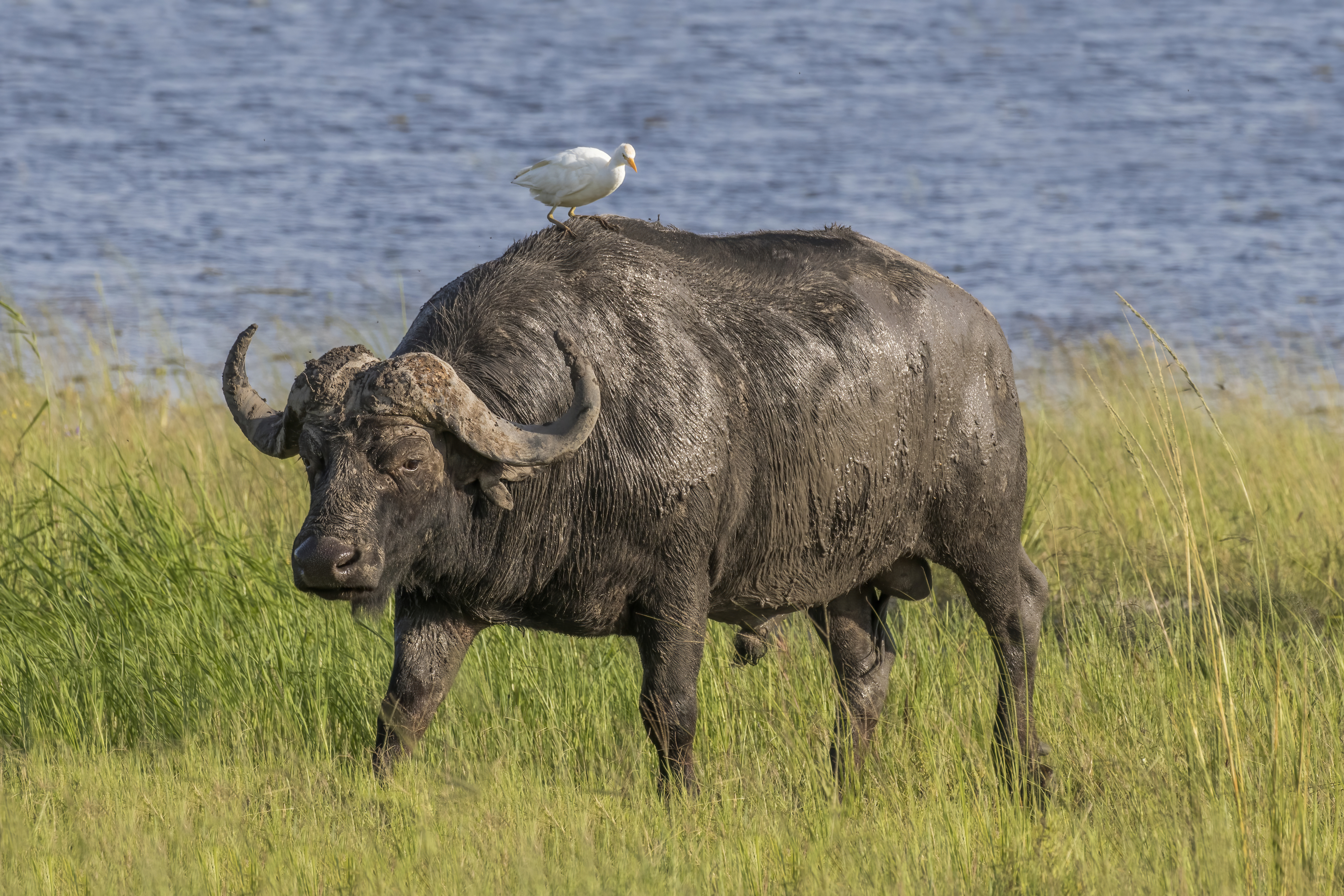 African buffalo (Syncerus caffer caffer) male with cattle egret, Chobe National Park, Botswana